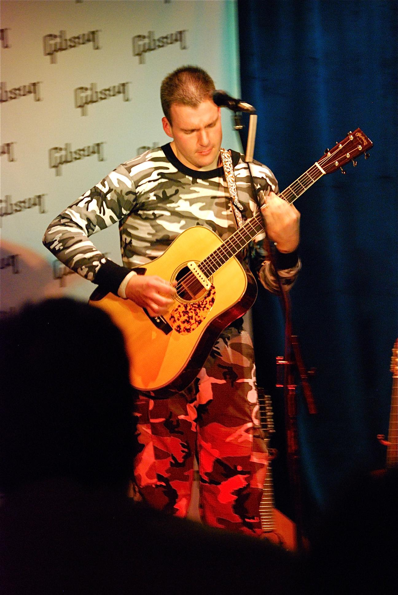 Ewan Dobson at the Gibson Hall (1205 King Street West) at Liberty in Toronto.